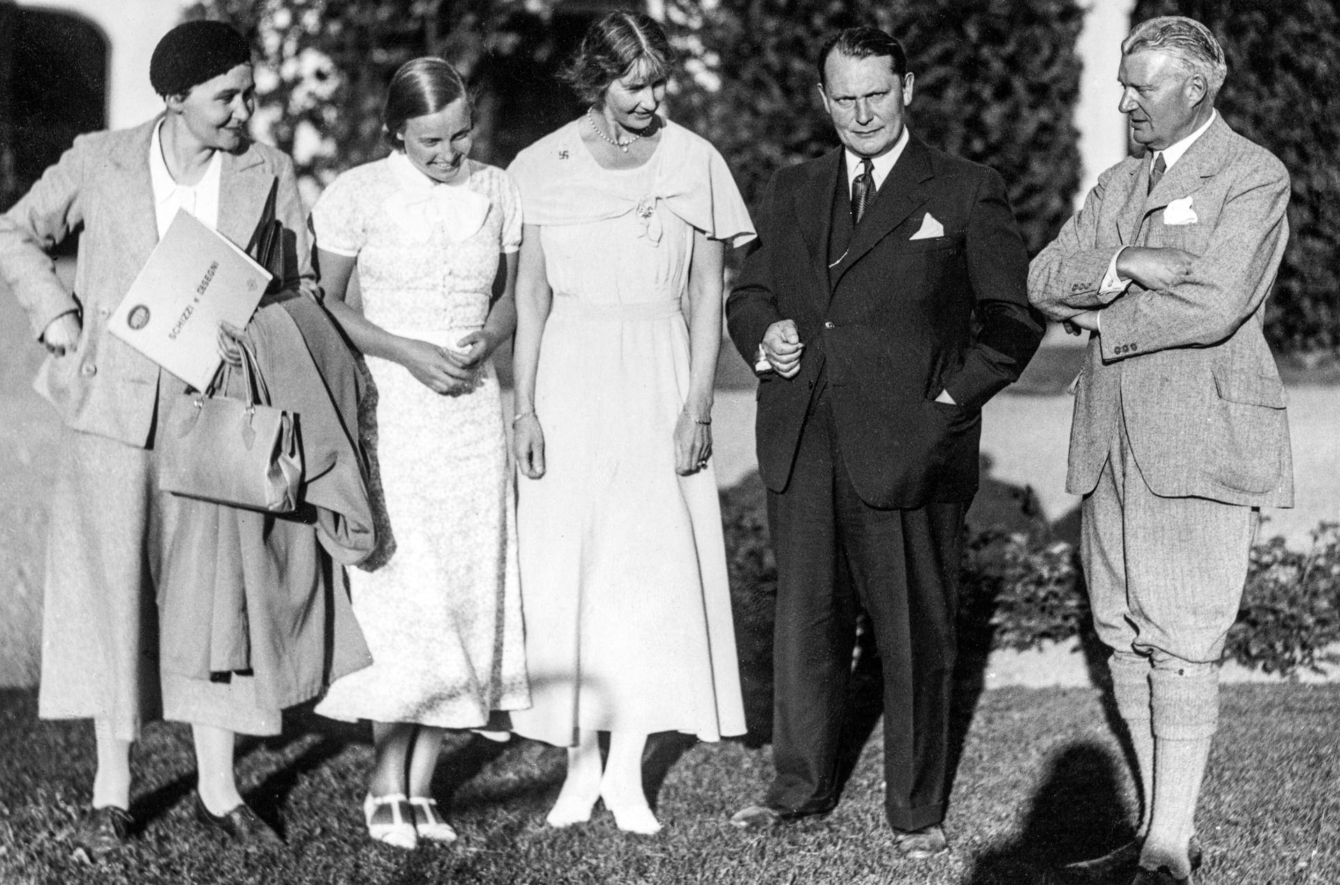 Picture of Birgitta, Mary, Hermann Göring and Eric von Rosen at Rockelstad in Sweden